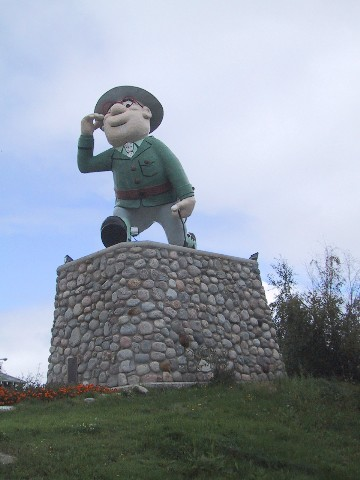 The statue of Flintabbatey Flonatin at Flin Flon, Manitoba, created by Al Capp. The town is named after this hero of a 1905 novel by E.J. Preston Muddock. Photo taken by me Sept. 1, 2005 and released to the public domain.